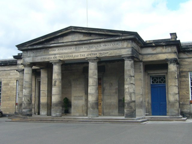 Edinburgh Academy, Henderson Row Front entrance to the original Edinburgh Academy building, designed by William Burn and opened in 1824. The school was founded for the specific purpose of improving the standard of classical education in Scotland, especially the teaching of Greek. Its distinguished alumni include Robert Louis Stevenson and James Clerk Maxwell.